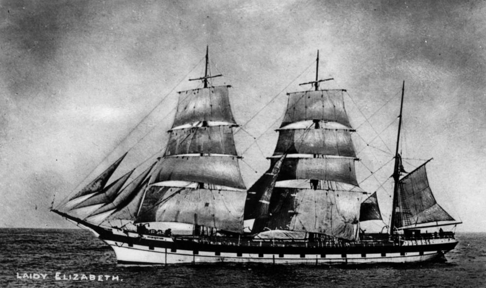 „Lady Elizabeth“ under sail.